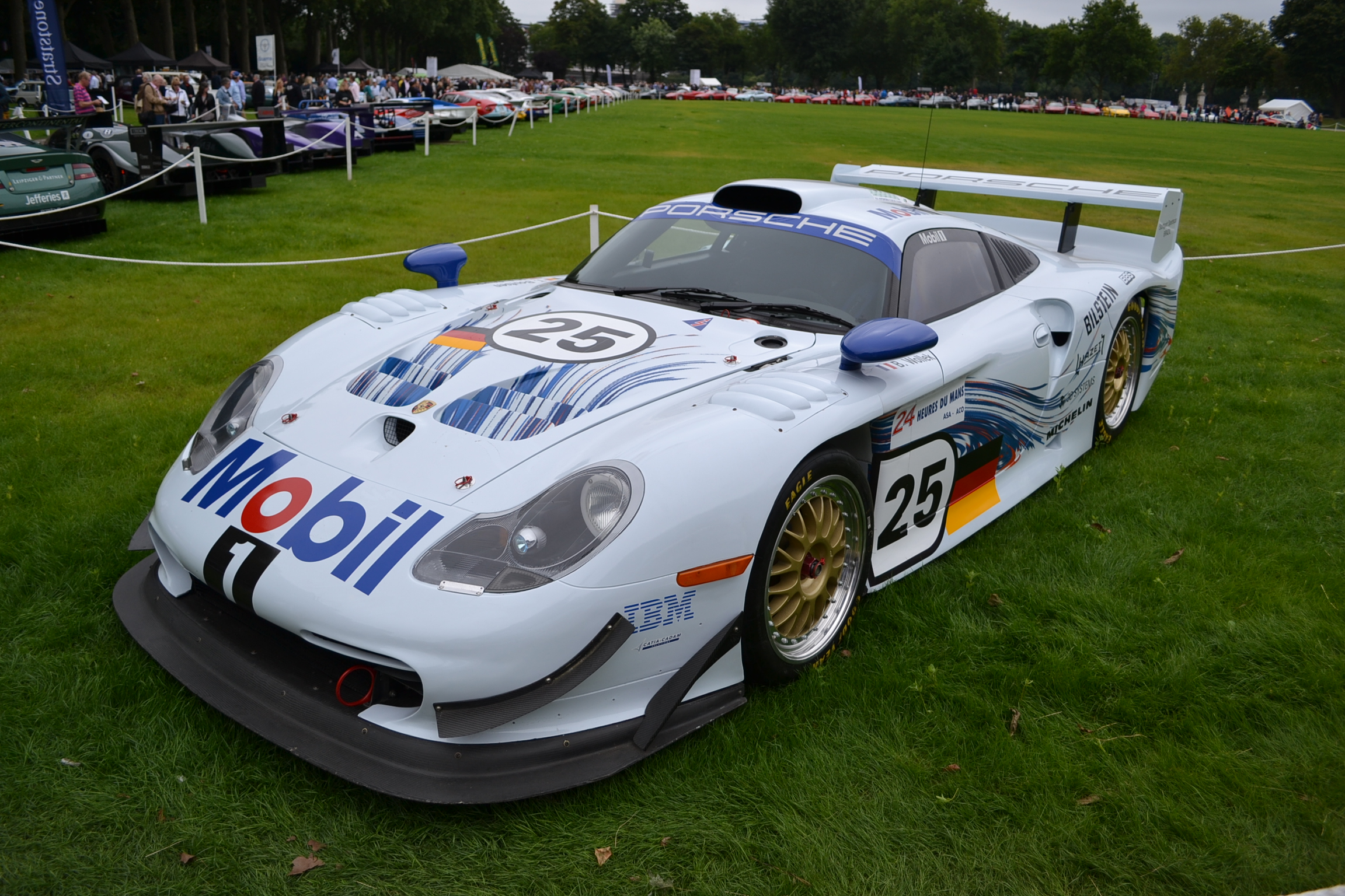 Chelsea Auto Legends 2012